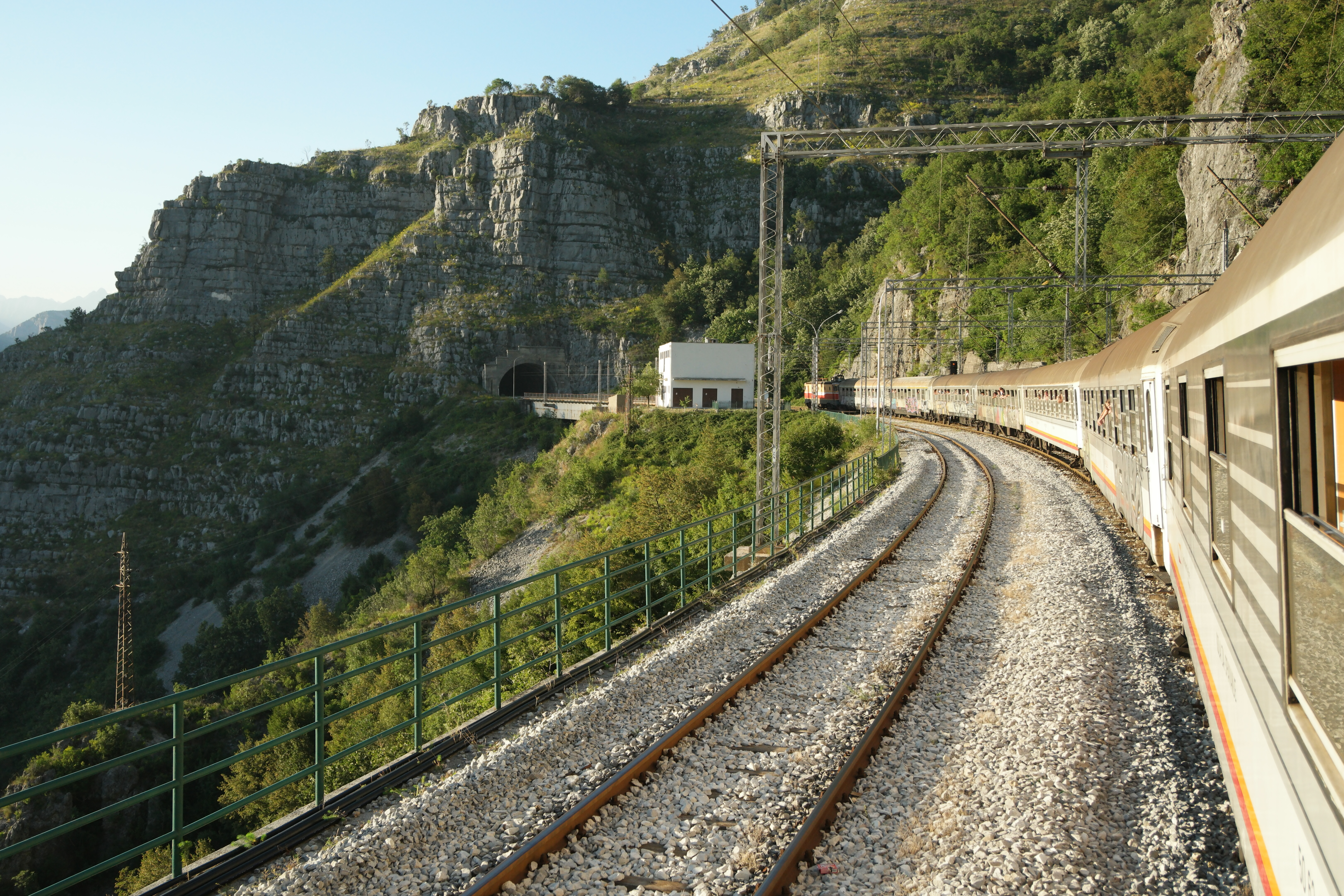 Lutovo railway station Montenegro